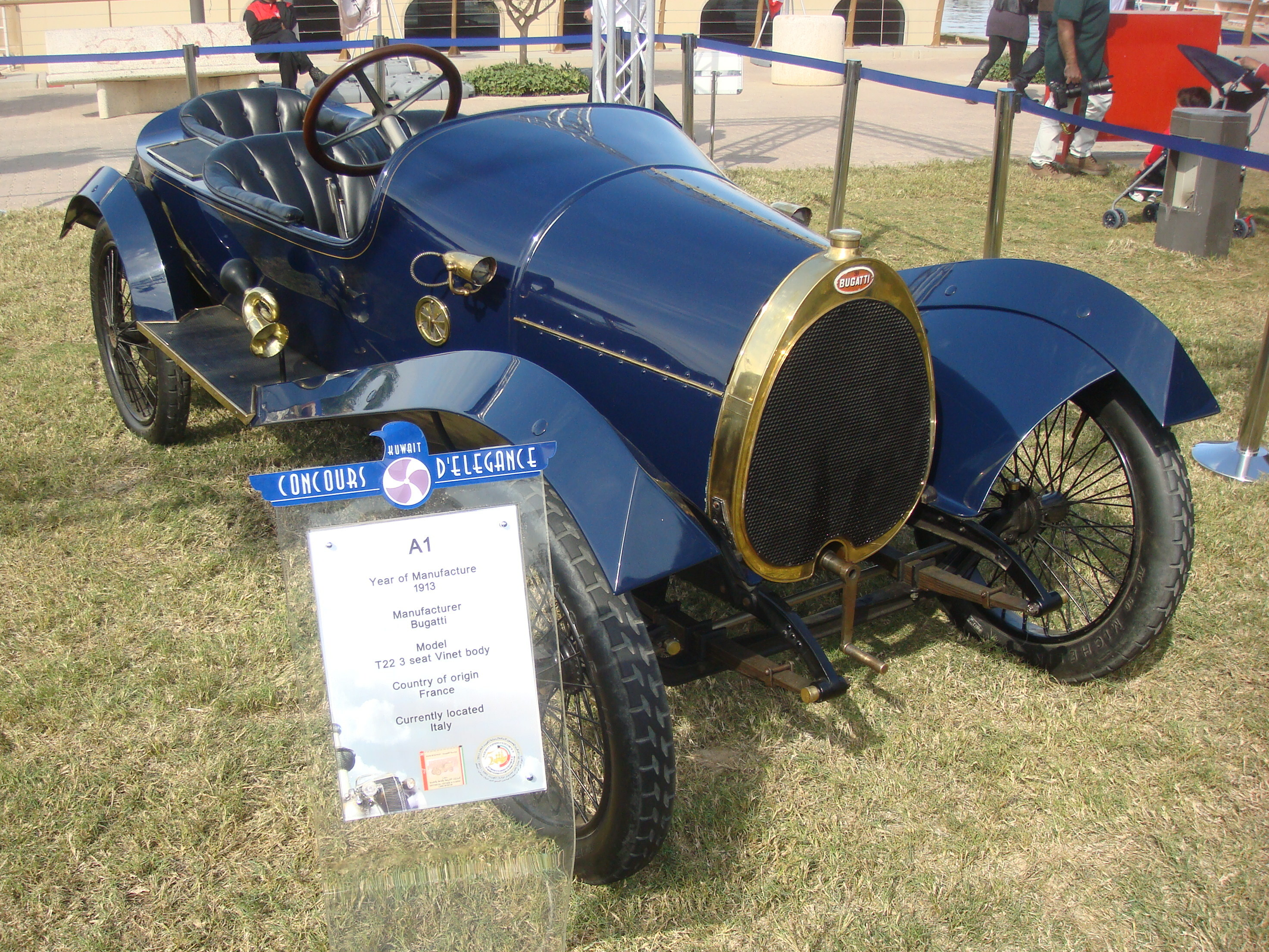 Bugatti Year of manufacture 1913 model T22 3 seat vinet body currently located in Italy